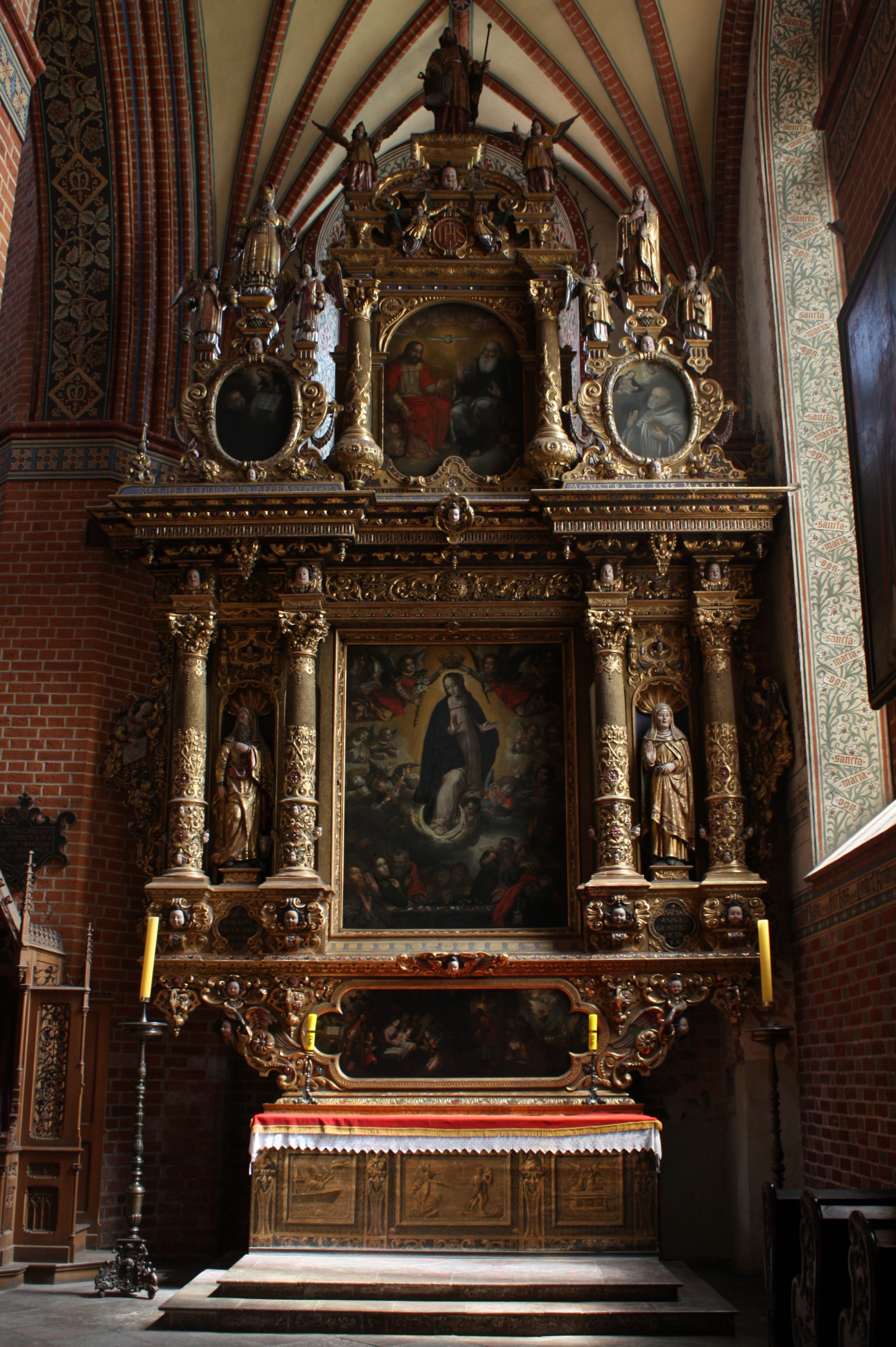 Pelplin Cathedral